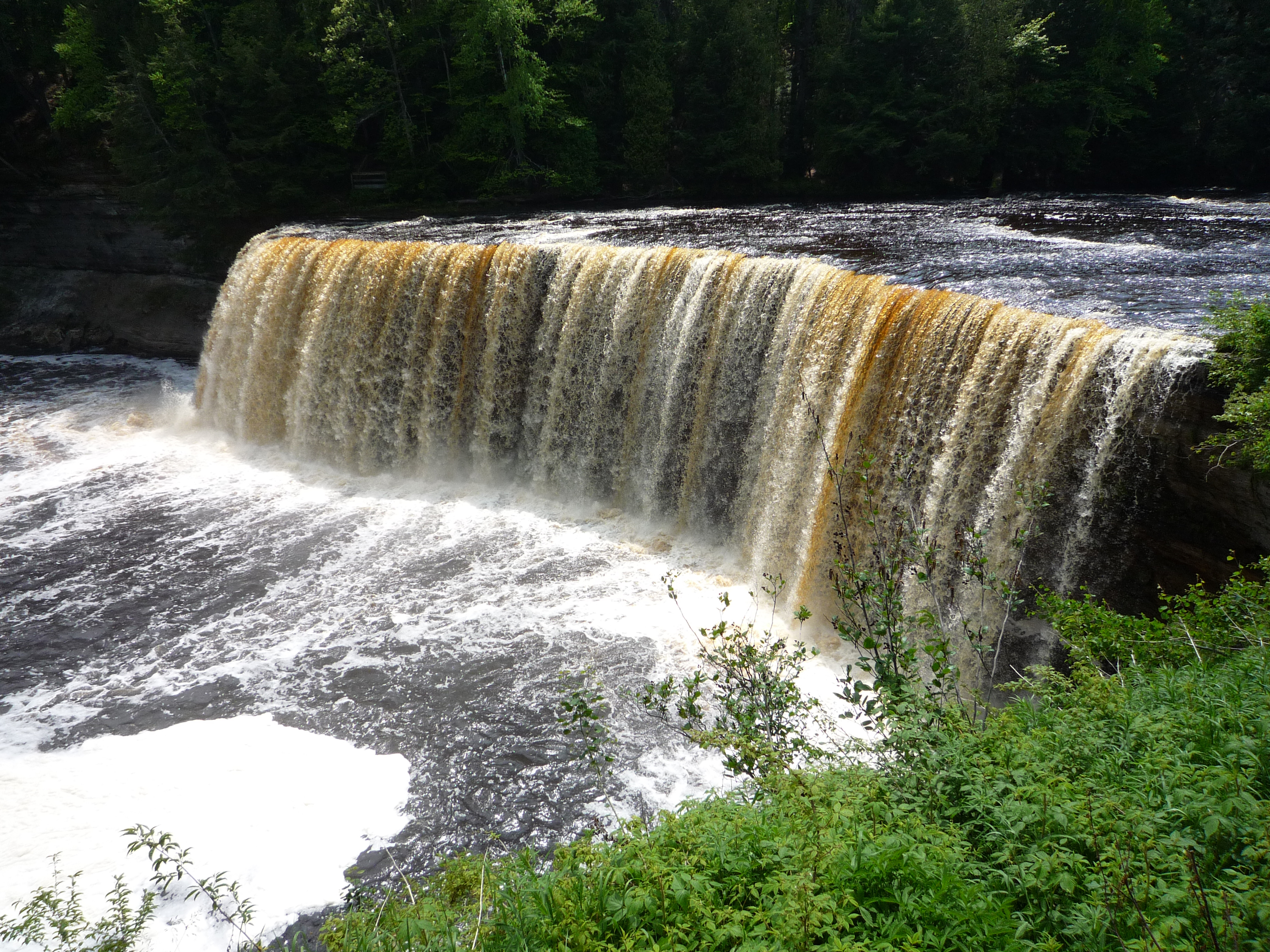 The Upper Tahquamenon Falls, Michigan, USA. The water color is caused by tannins leached from the cedar swamps which the river drains.